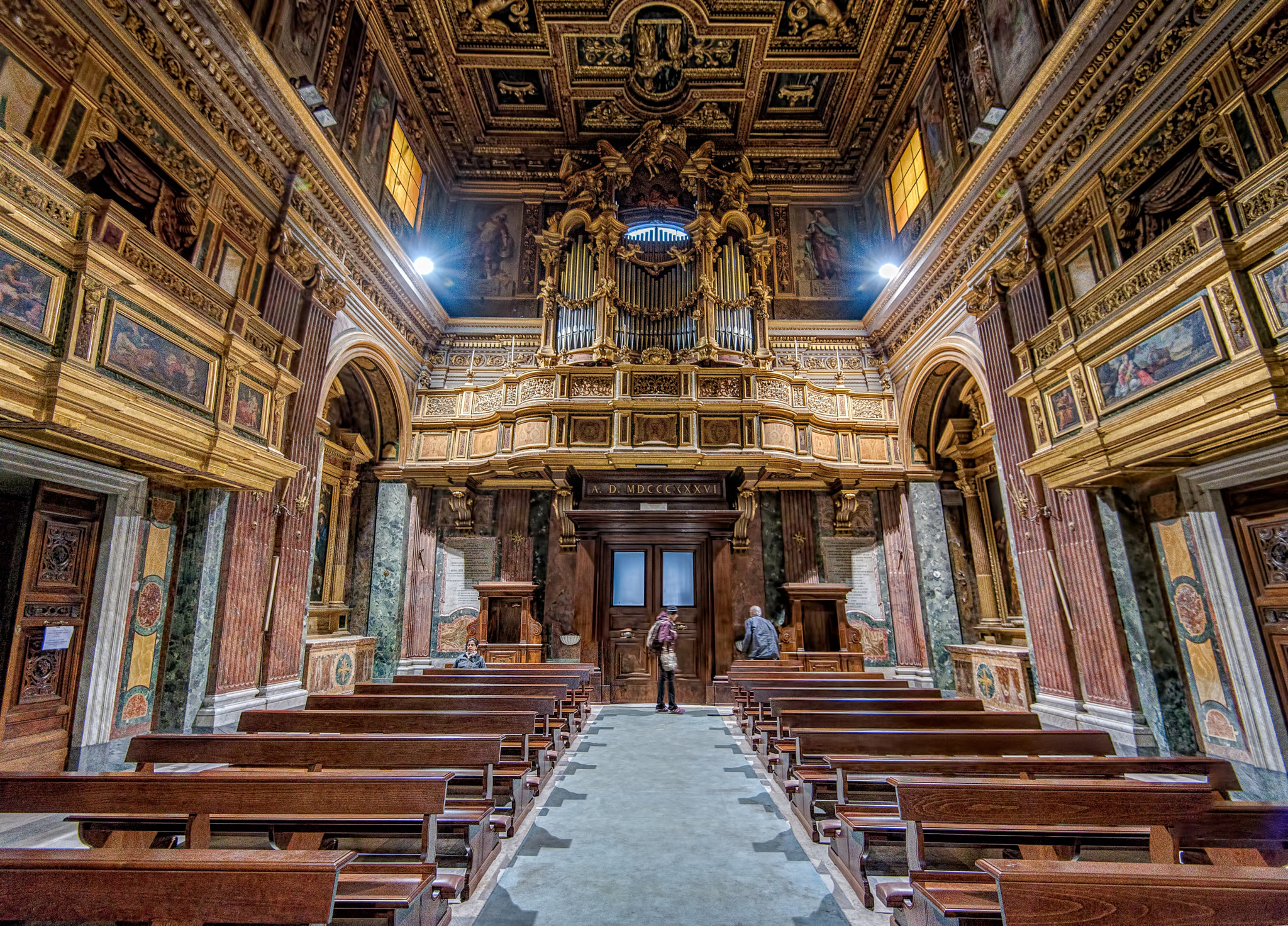 500px provided description: This is part of the interior of the church of San Giuseppe dei Falegnami (Italian, St. Joseph of the Carpenters), located in the Comitium, the political centre of the ancient city of Rome, on the northeastern slope of the Capitoline Hill. The date on the sign outside says 1538. 2 frame handheld vertorama. [#travel ,#church ,#europe ,#italy ,#rome ,#high iso ,#artwork ,#ancient city ,#organ ,#vertorama ,#pews ,#capitoline hill ,#St Paul ,#St Peter ,#2 frame ,#Comitium ,#Mamertine prison ,#San Giuseppe dei Falegnami ,#St. Joseph of the Carpenters]